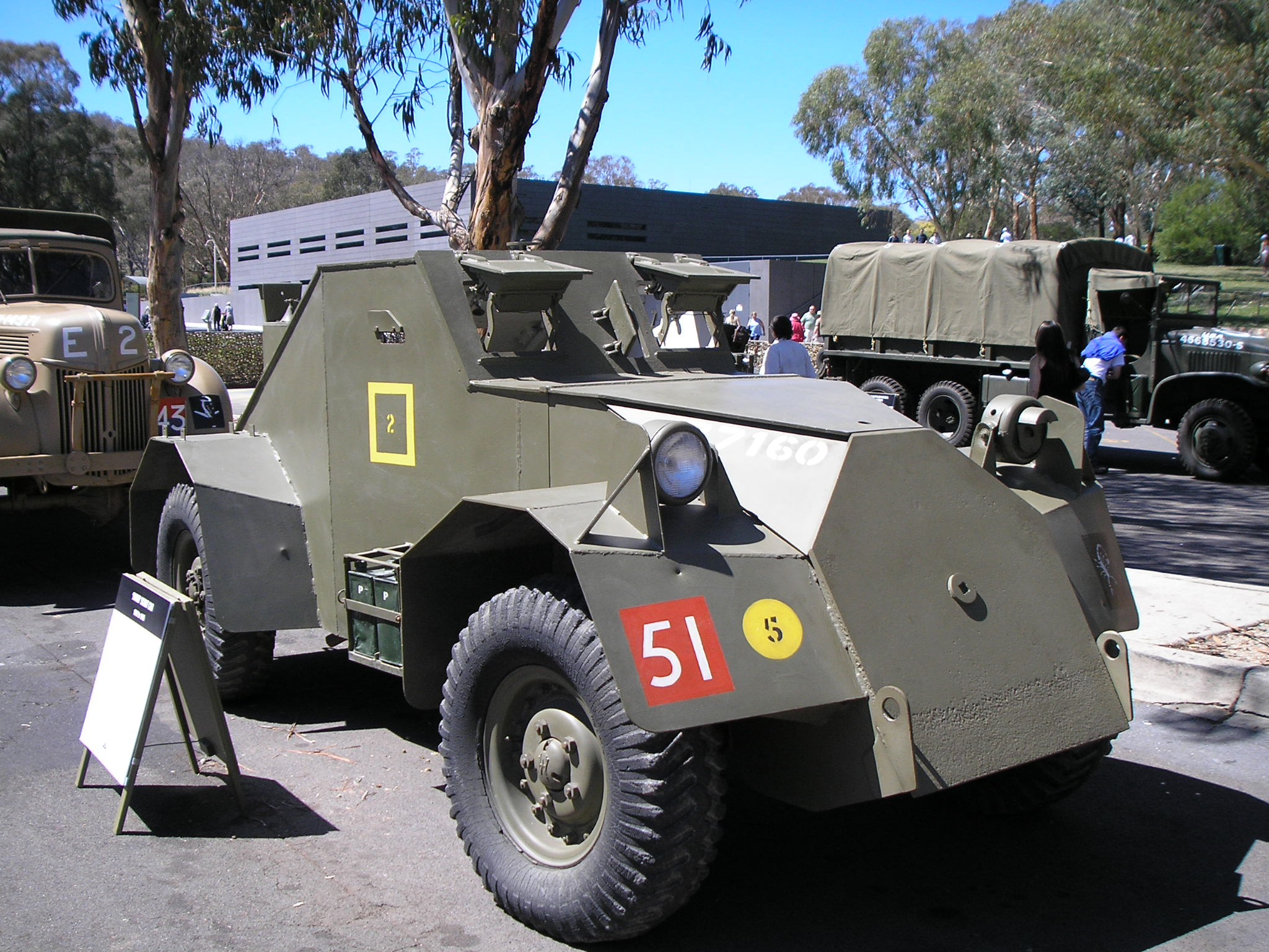 A Dingo scout car at the Australian War Memorial open day 10 March 2007.